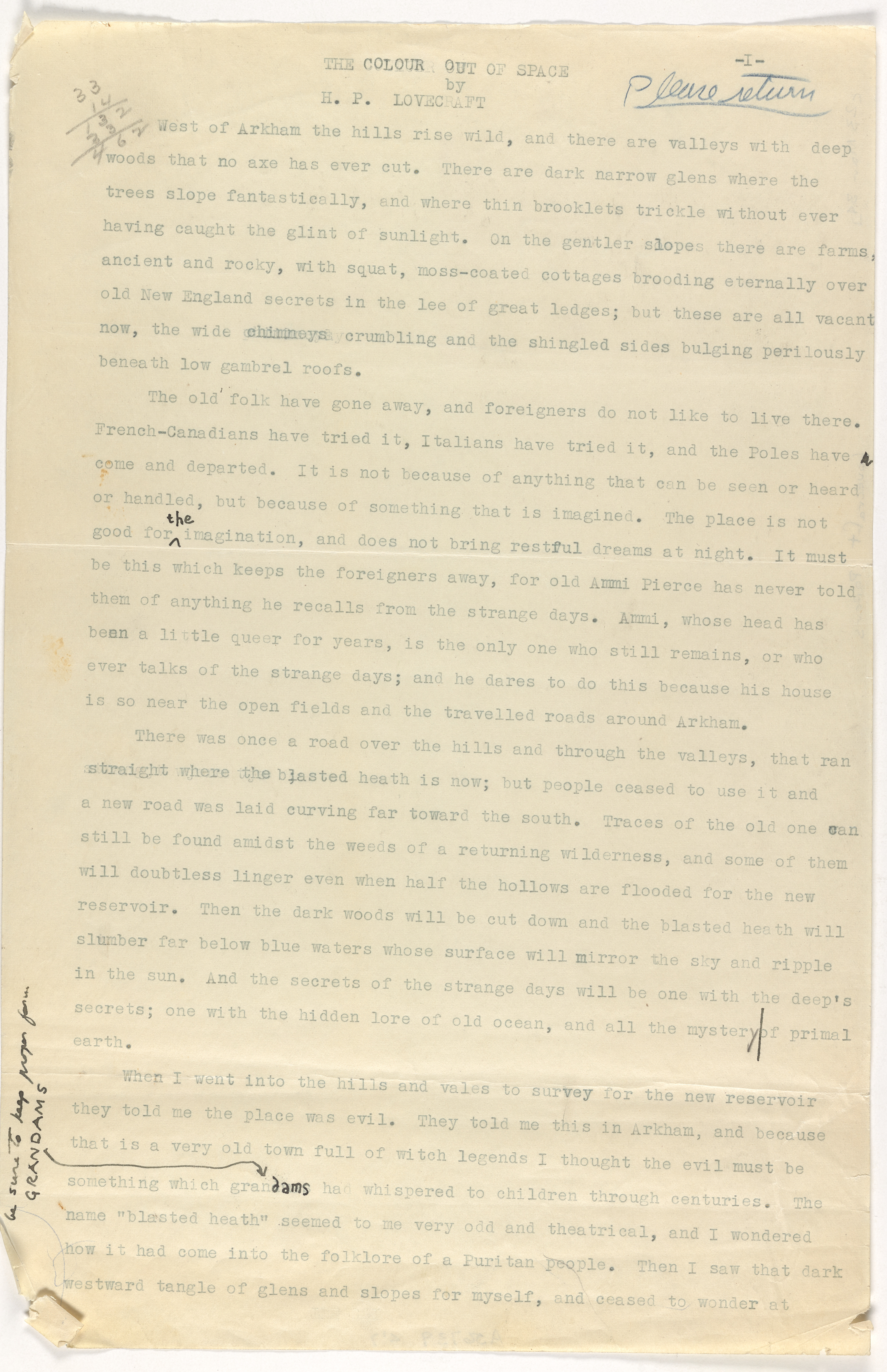 First page of the manuscript The Colour Out of Space.